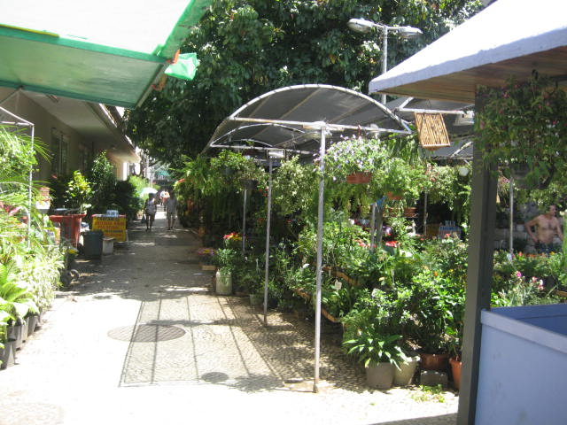 Das Flores, street, Rio de Janeiro city, Brazil.